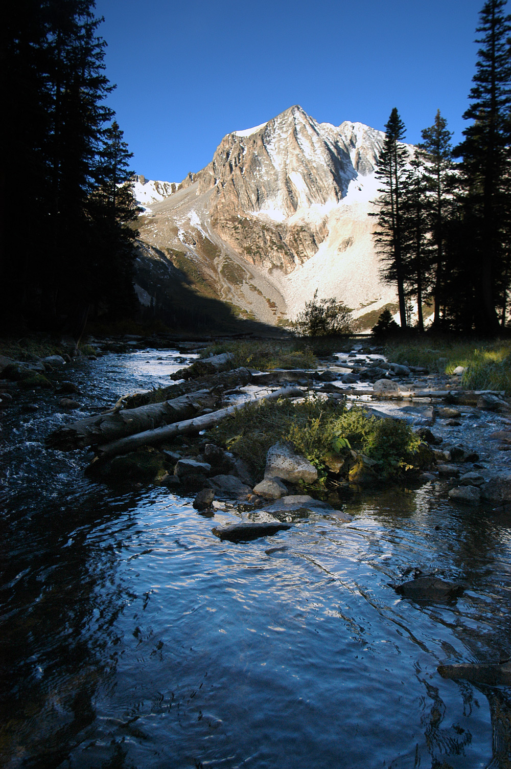 Snowmass Peak towers above Snowmass Lake in the Maroon Bells-Snowmass Wilderness, Colorado. 1/500th sec, F/7.1, ISO 200